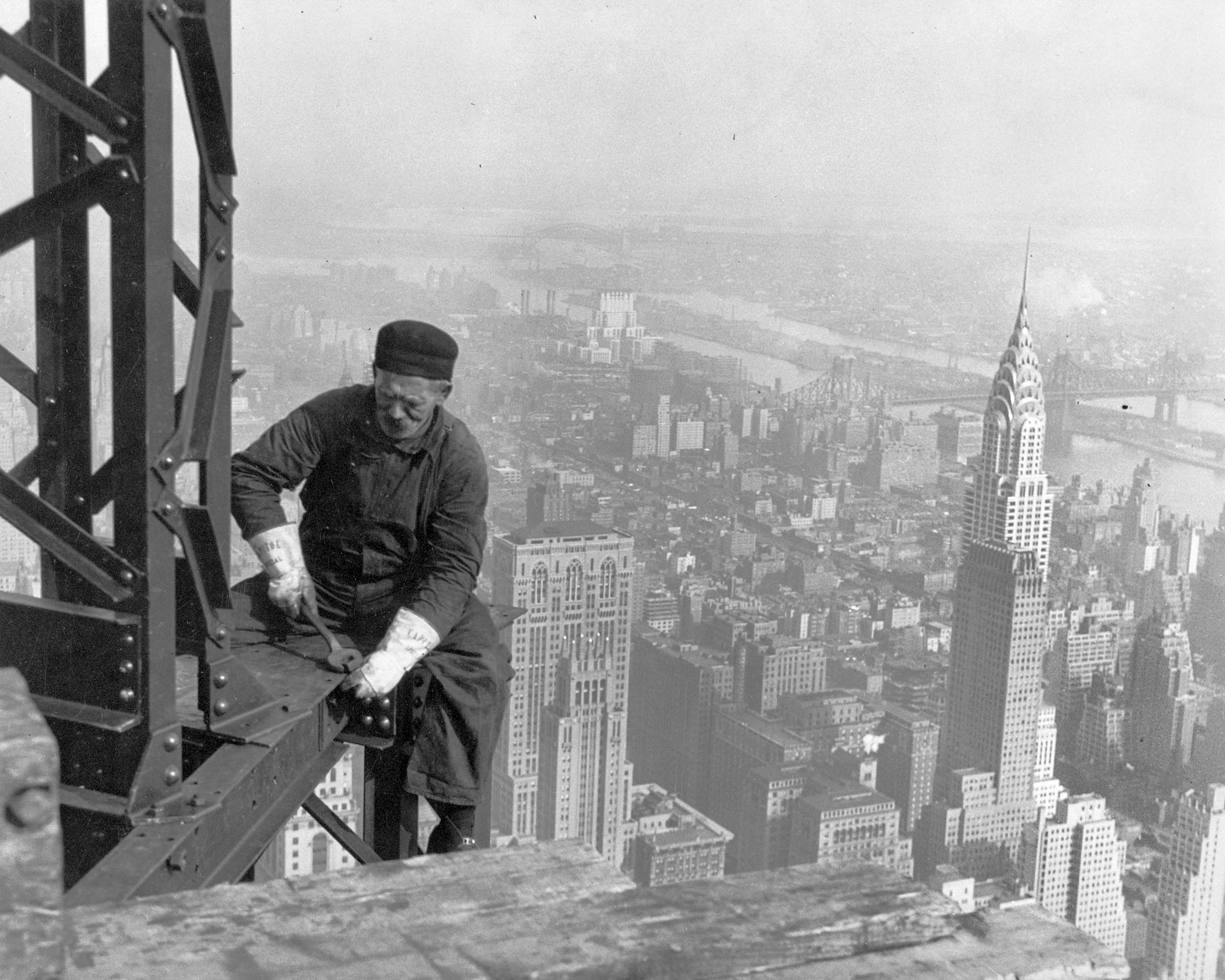 Photograph of a Workman on the Framework of the Empire State Building. Many structural workers are above middle-age.